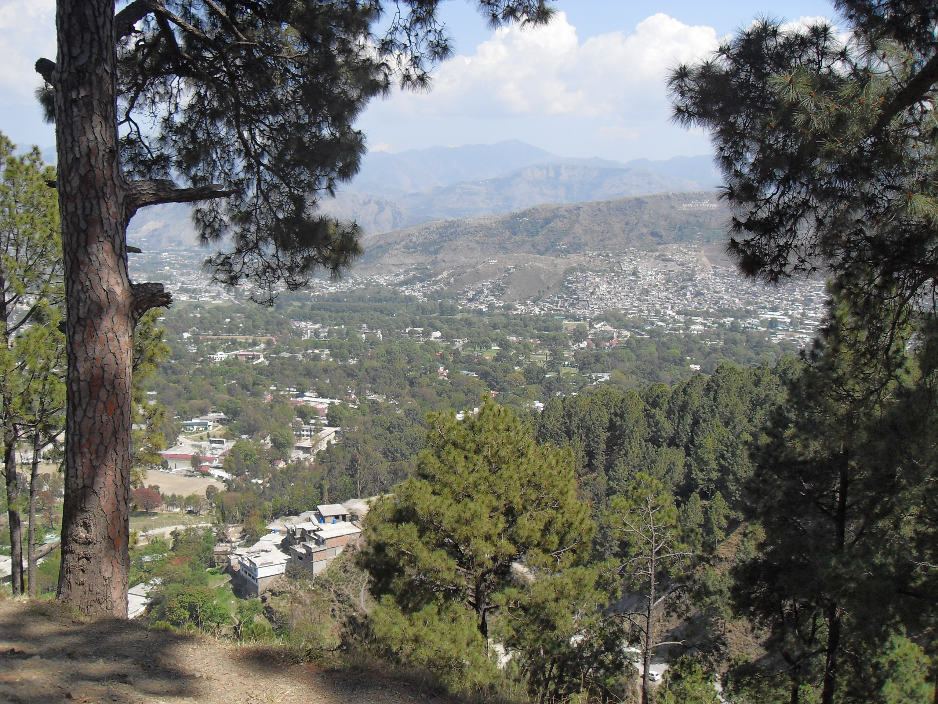 A view of Abbottabad, Pakistan, from Shimla Hill